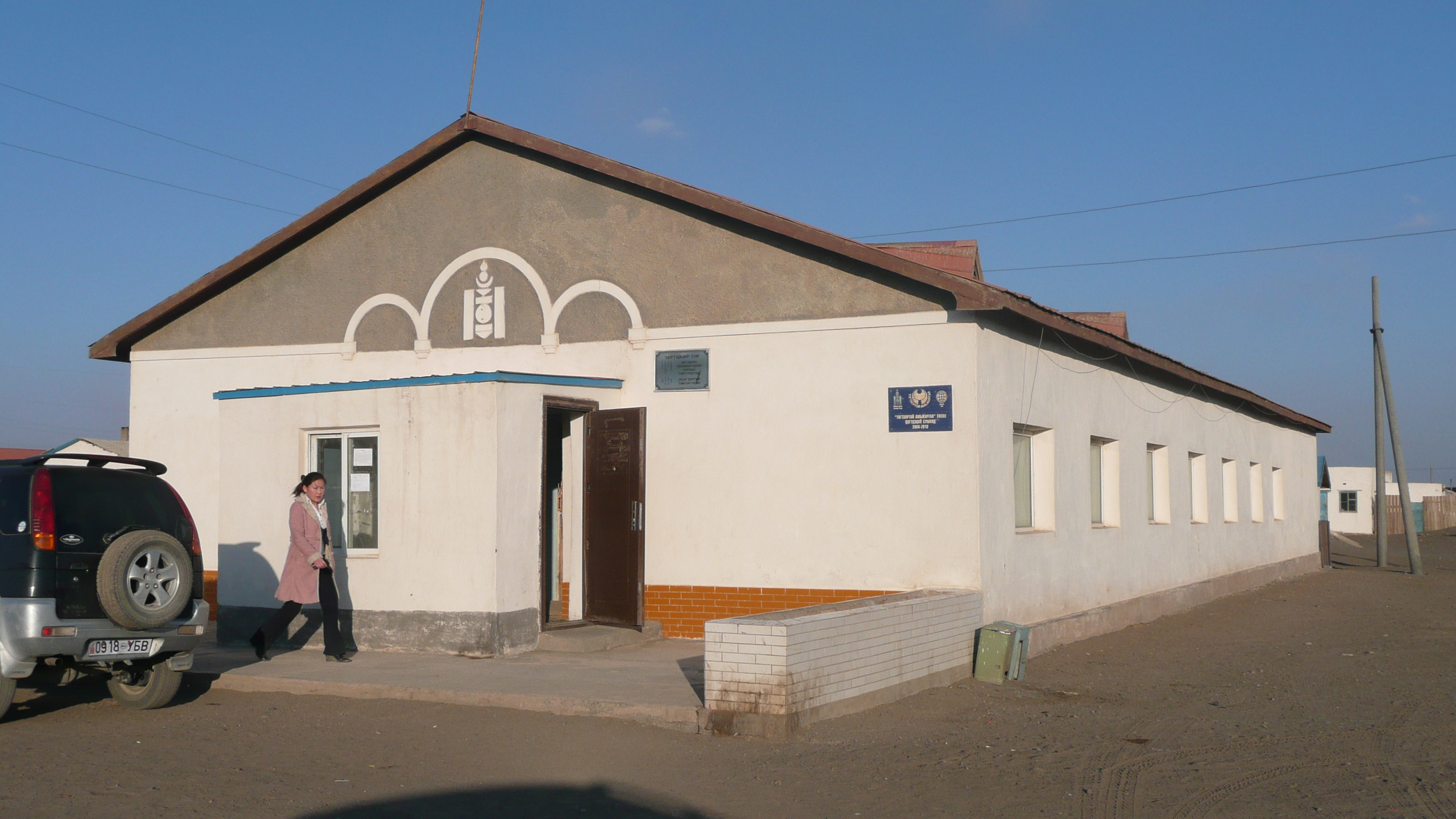 Building of the Administration, Centre of the Tsogttsetsii sum (district) in South Gobi, Mongolia